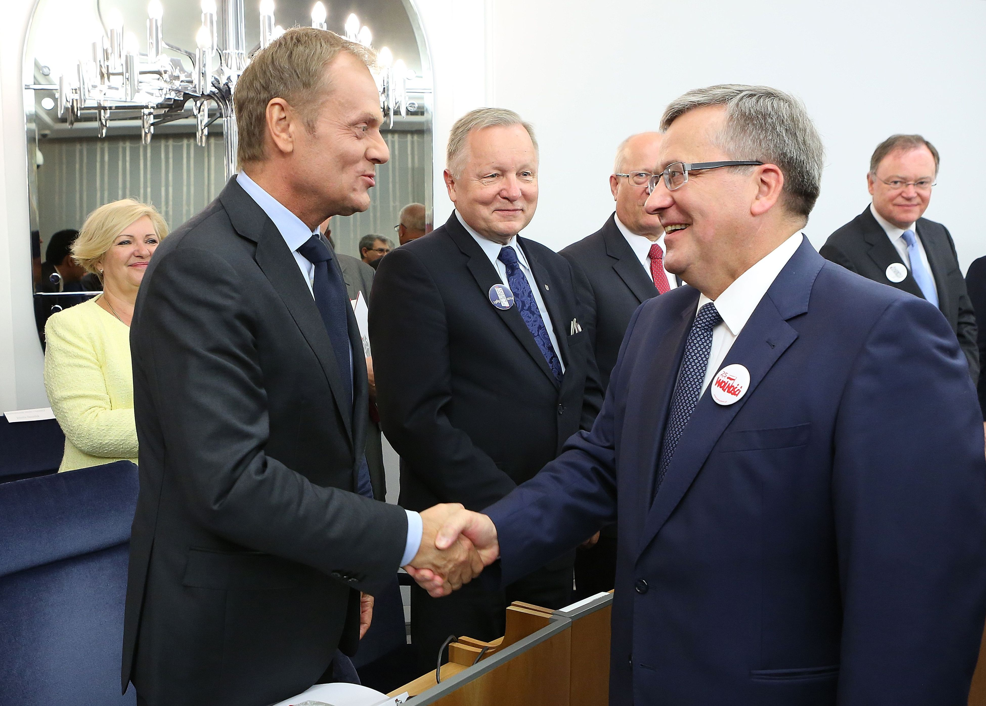 President Bronisława Komorowski and Prime Minister Donald Tusk. 58th sitting of the Polish Senate